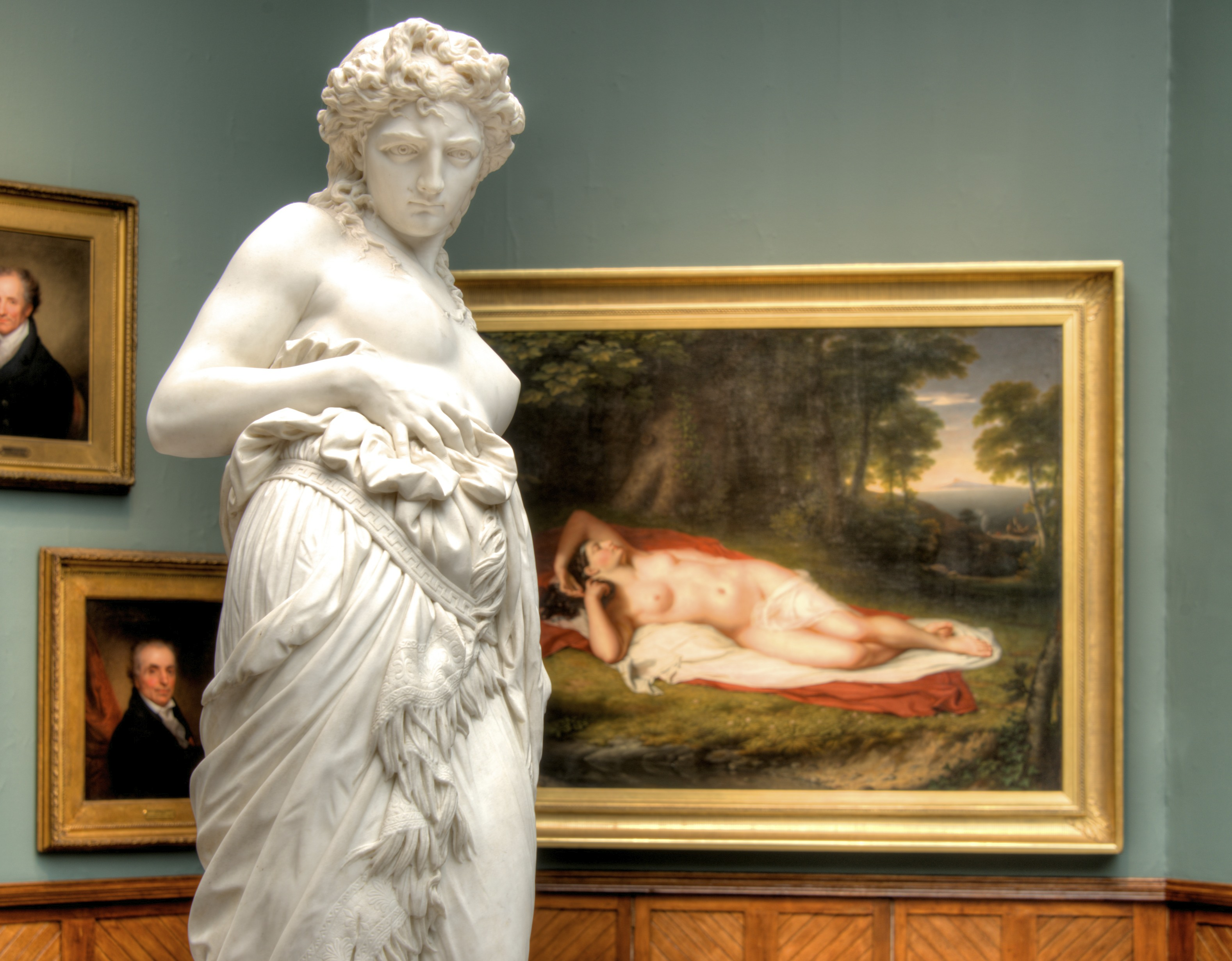 "Hypathia", by Howard Roberts, with "Ariadne Asleep on the Island of Naxos", in the background.